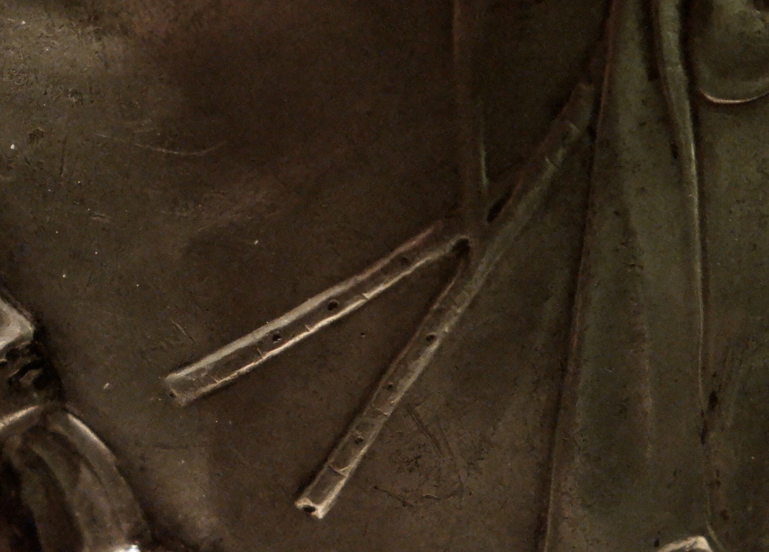 See Warren Cup. British Museum, GR 1999,0426.1